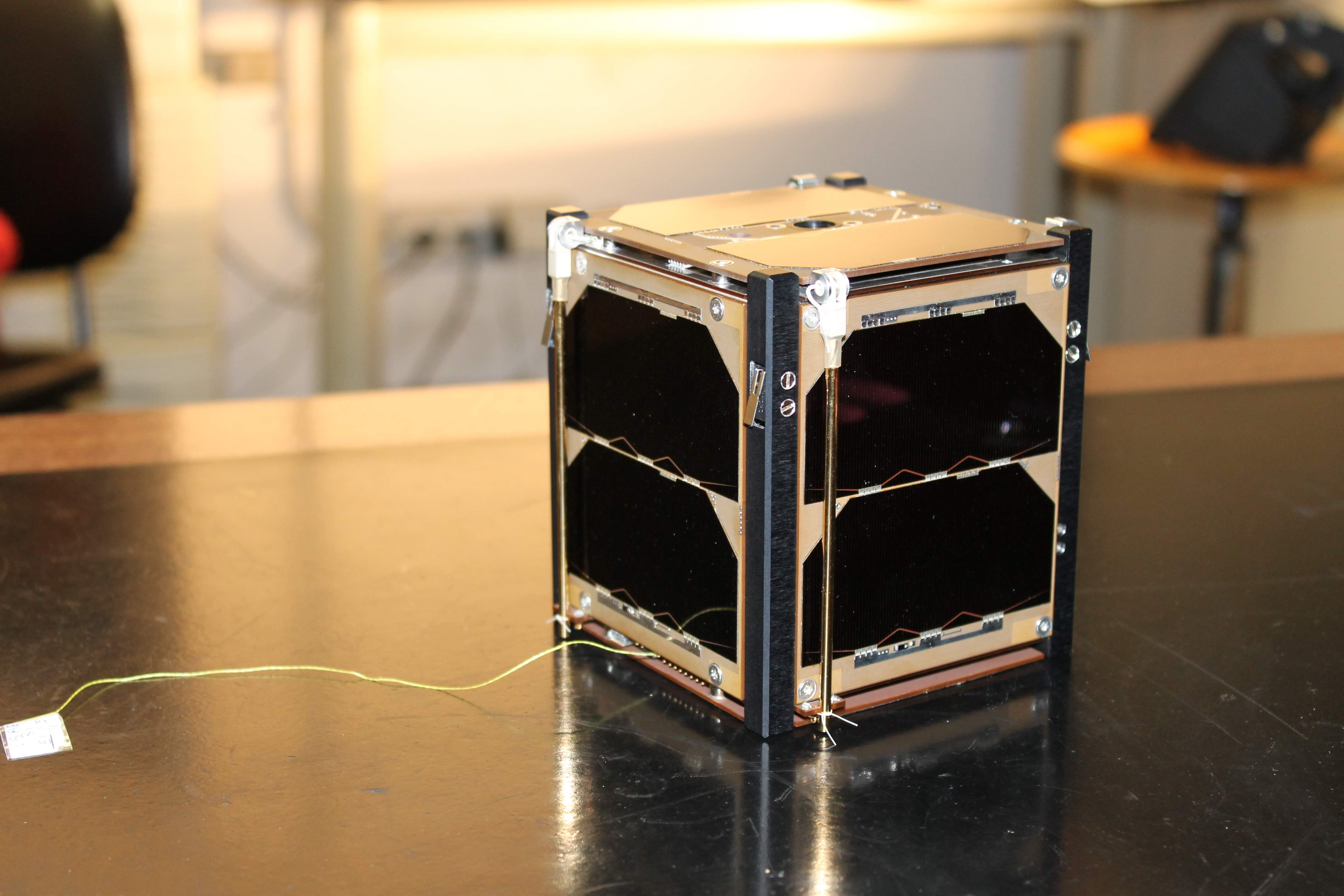 Picture of 1KUNS-PF during development with its aerials stowed and RBF (Remove Before Flight) inserted.